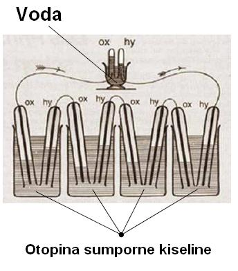 William Grove fuel cell